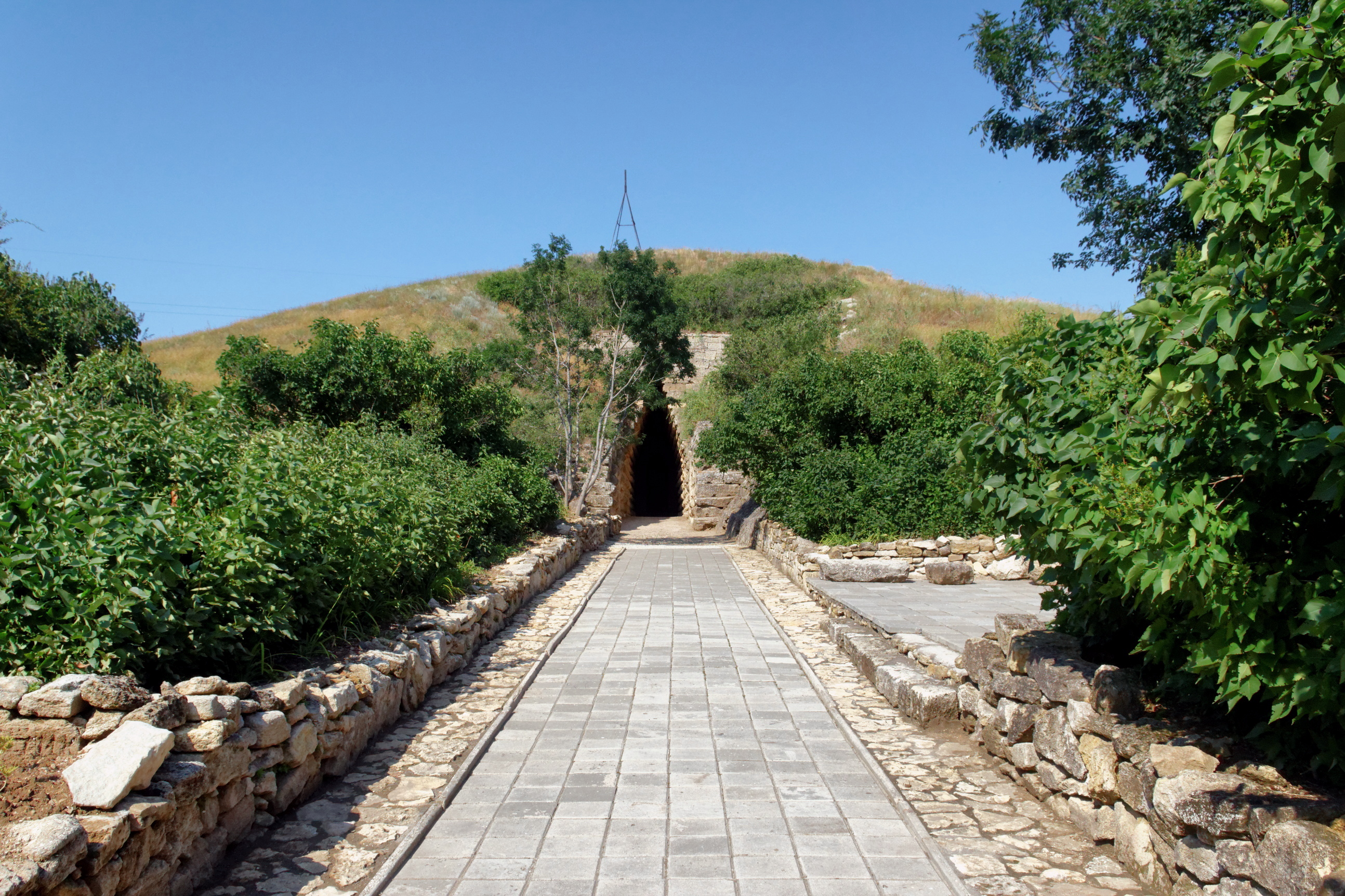 Kerch. Tsarskiy Kurgan